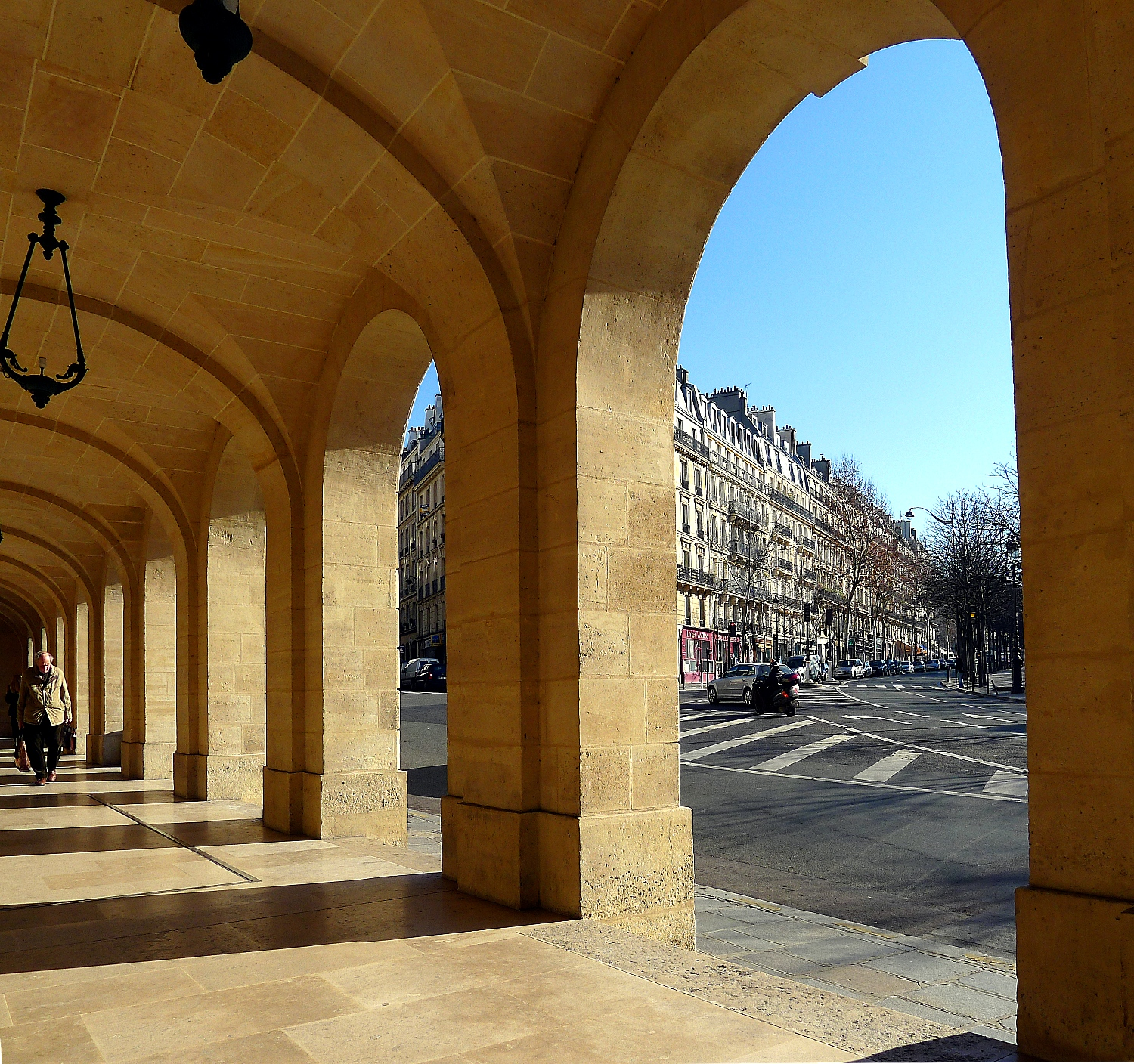 Medicis street - Paris